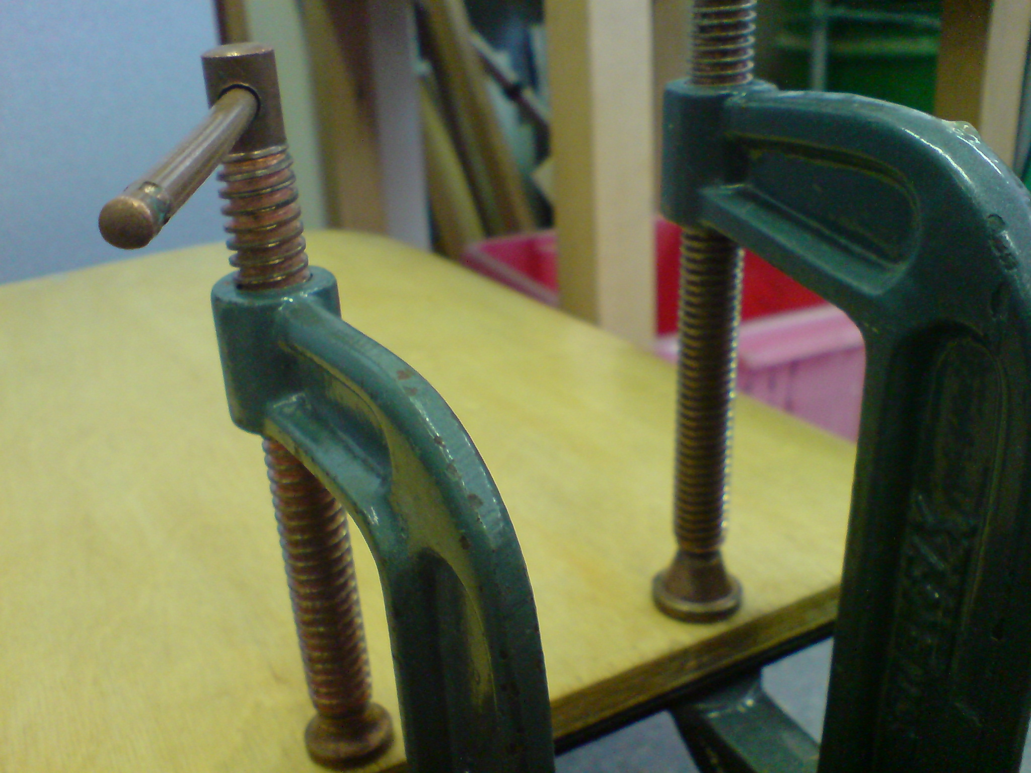 Two G-clamps in use.